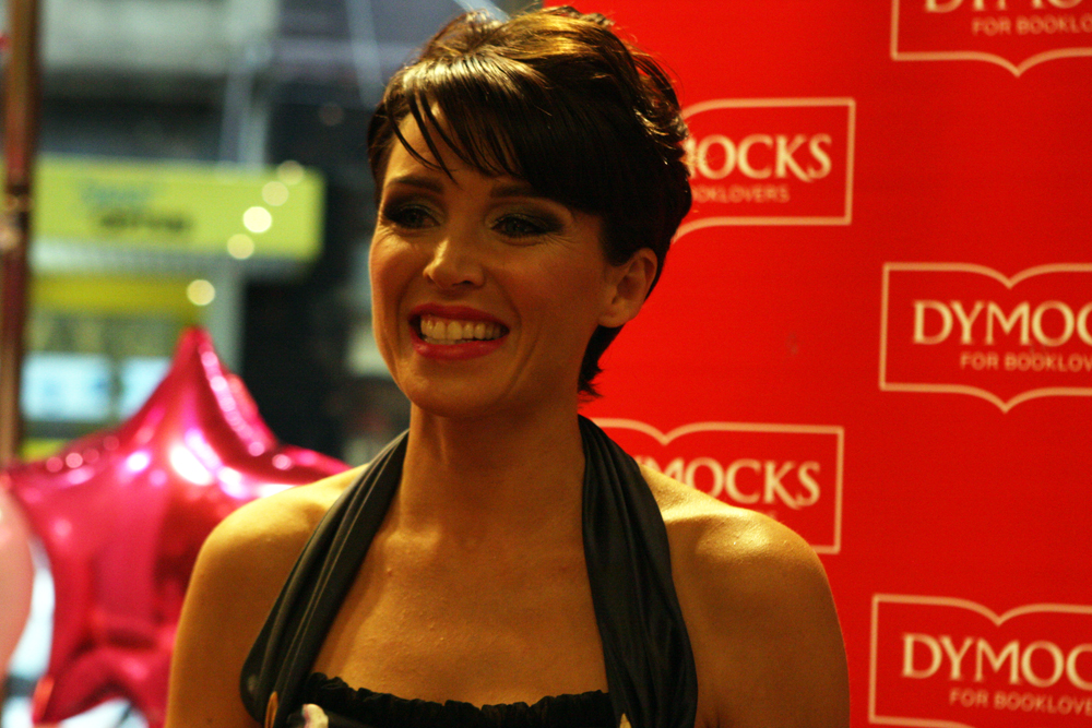 Dannii Minogue launches book Dannii: My Style at Dymocks, Sydney, Australia